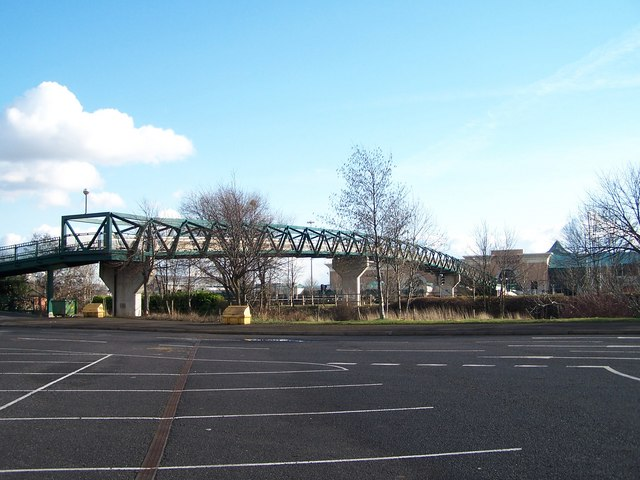 Pedestrian Bridge and overspill car park, Meadowhall, Sheffield